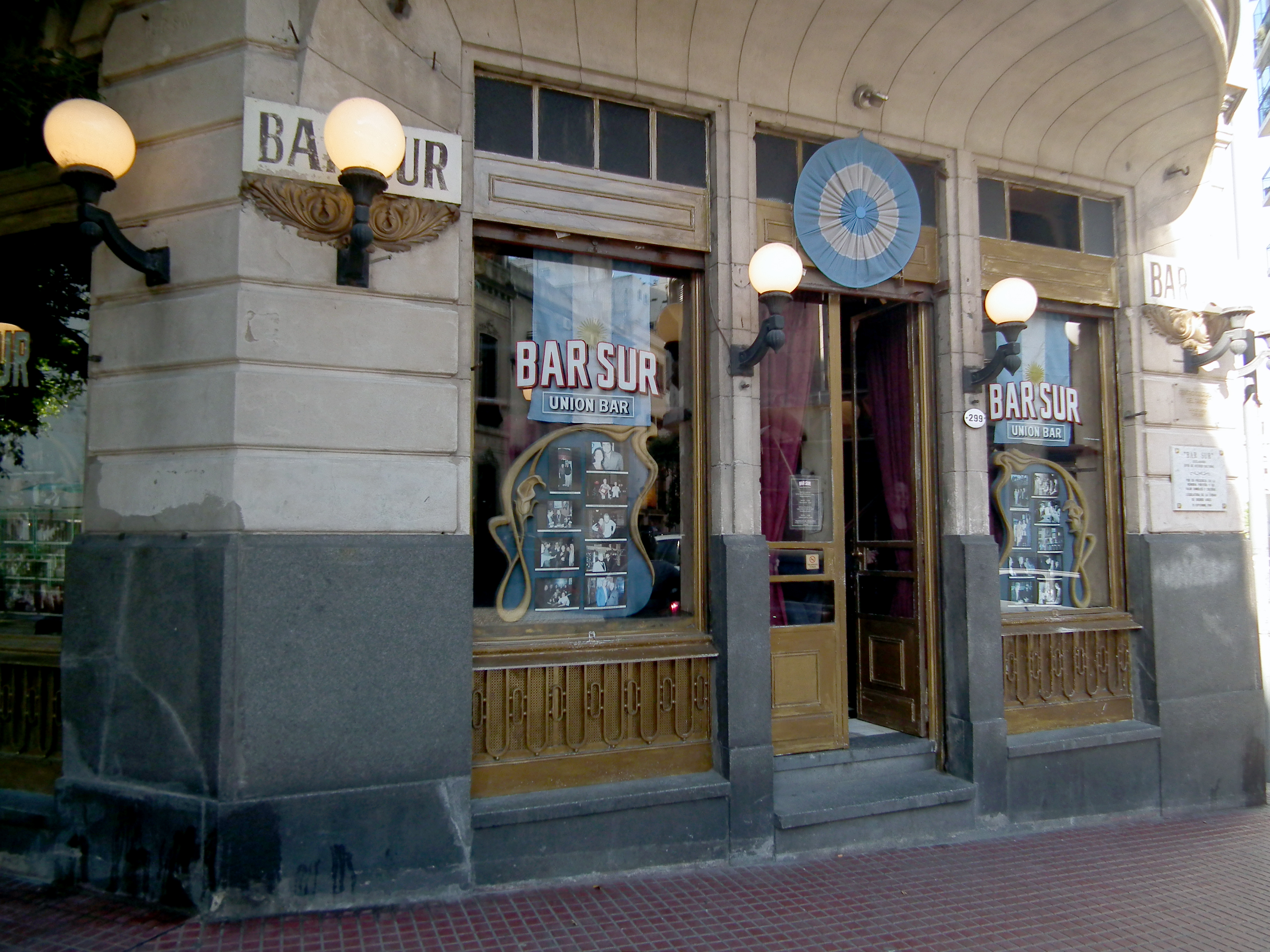 Entrance to Bar Sur in San Telmo, Buenos Aires